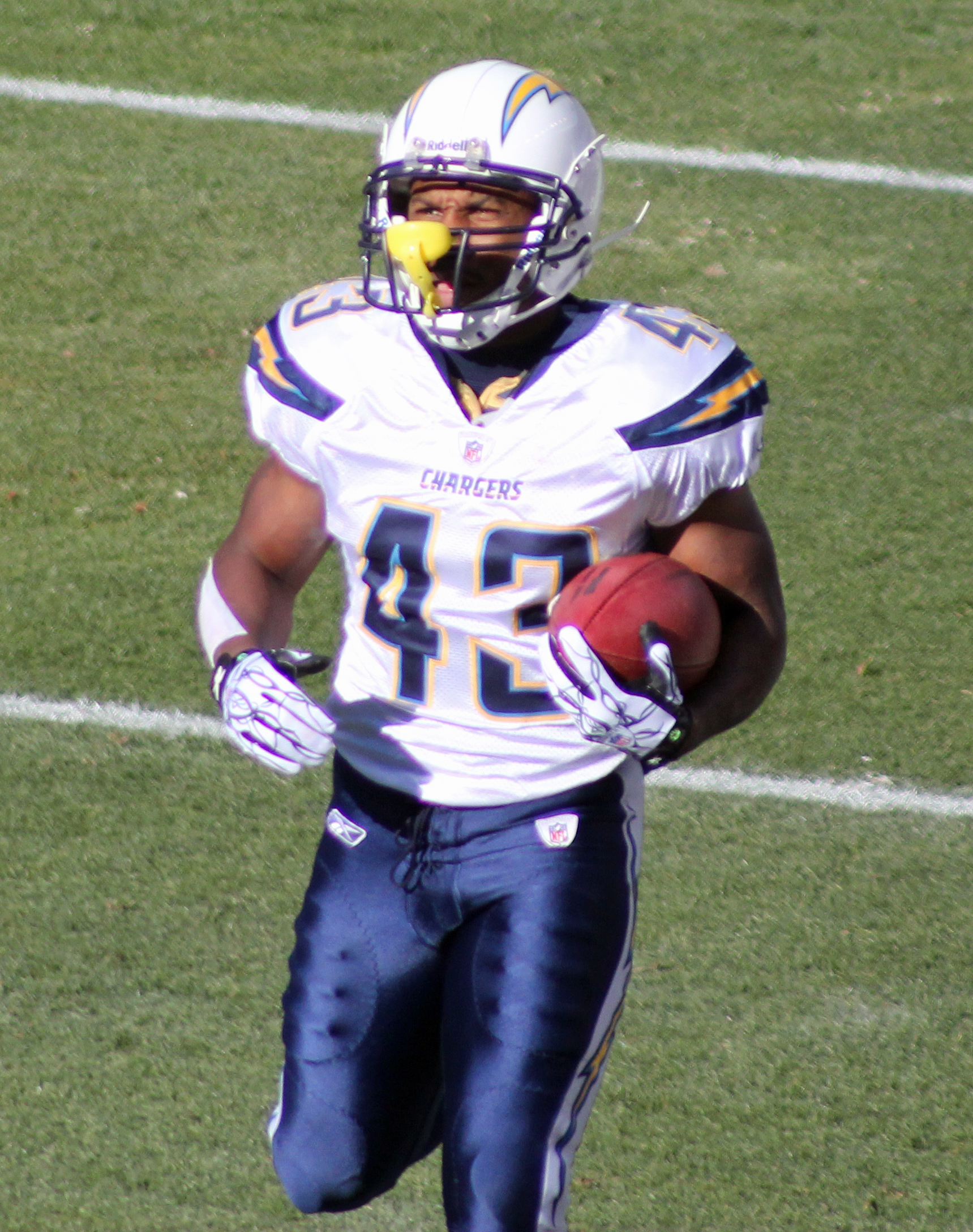 Darren Sproles, a player on the San Diego Chargers American football team.